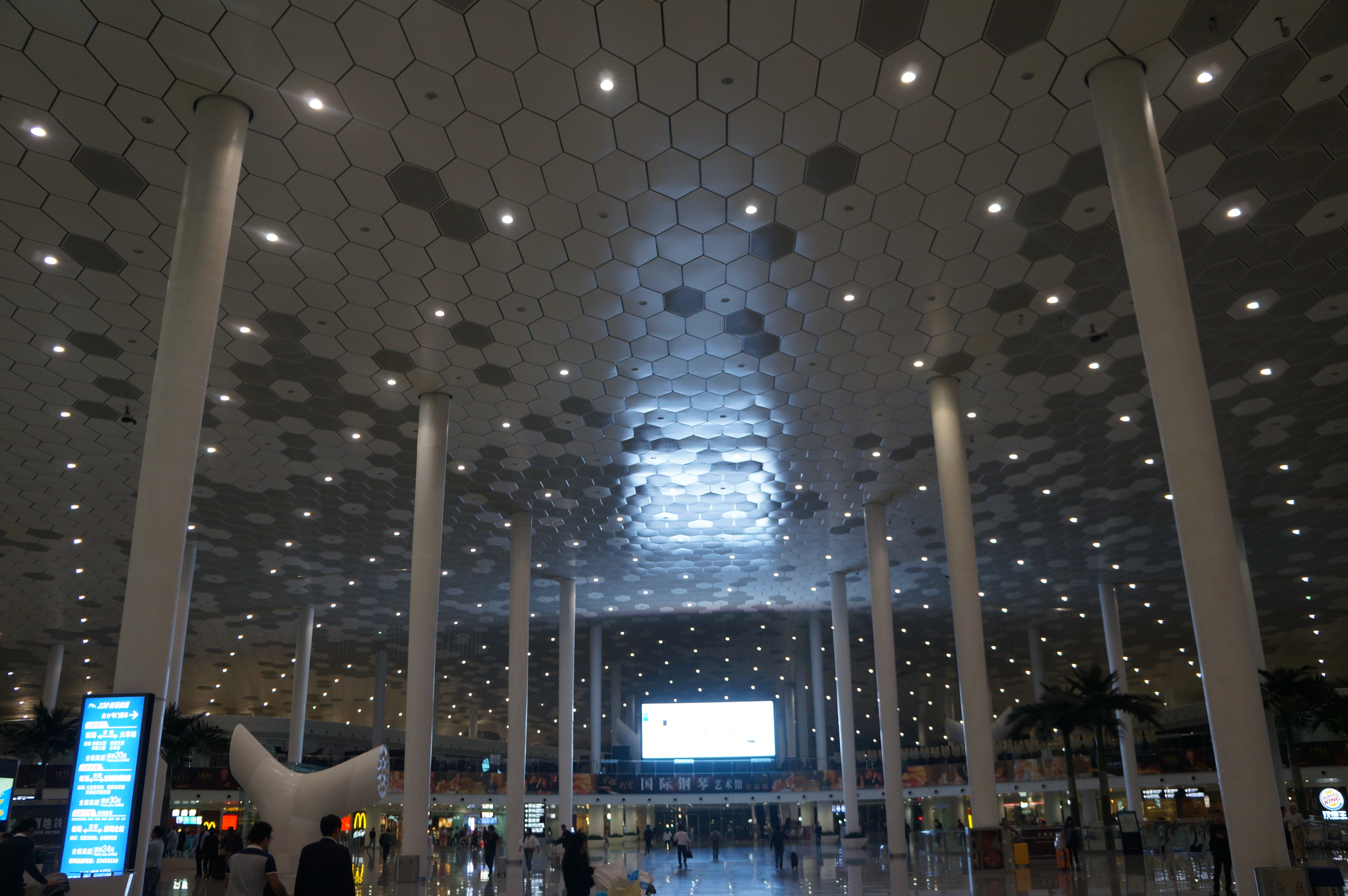 201611 Transferring center of SZX, including Metro, bus taxi e.t.c.